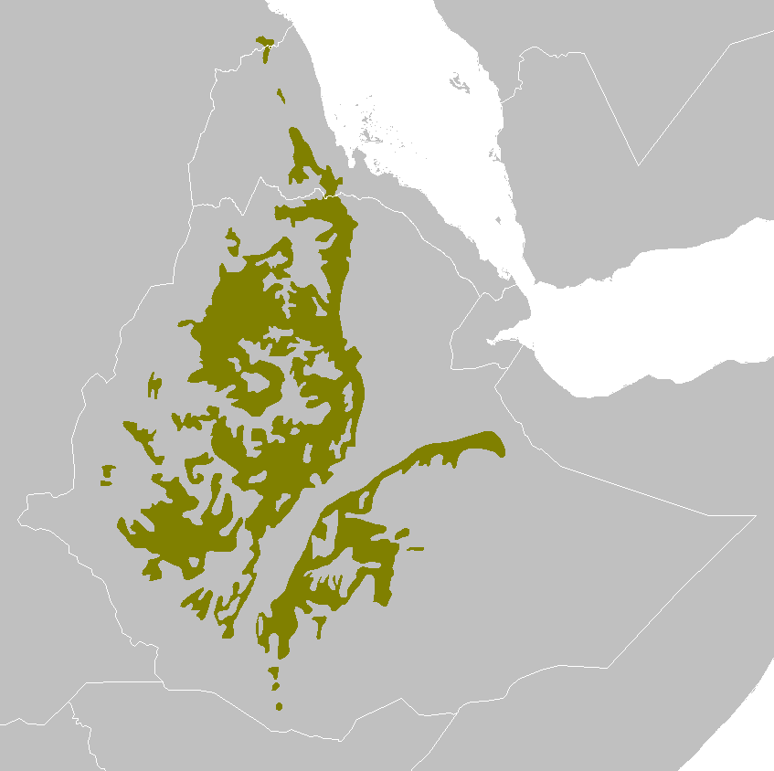 Ethiopian montane grasslands and woodlands ecoregion map